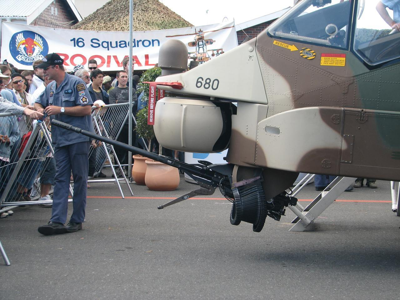 Seen in action at Ysterplaat Air Show on 23 September 2006 complete with simulated rockets and canon fire! This helicopter was designed and built in South Africa as an alternative to the Apache. or for more information. See the Rooivalk flying at